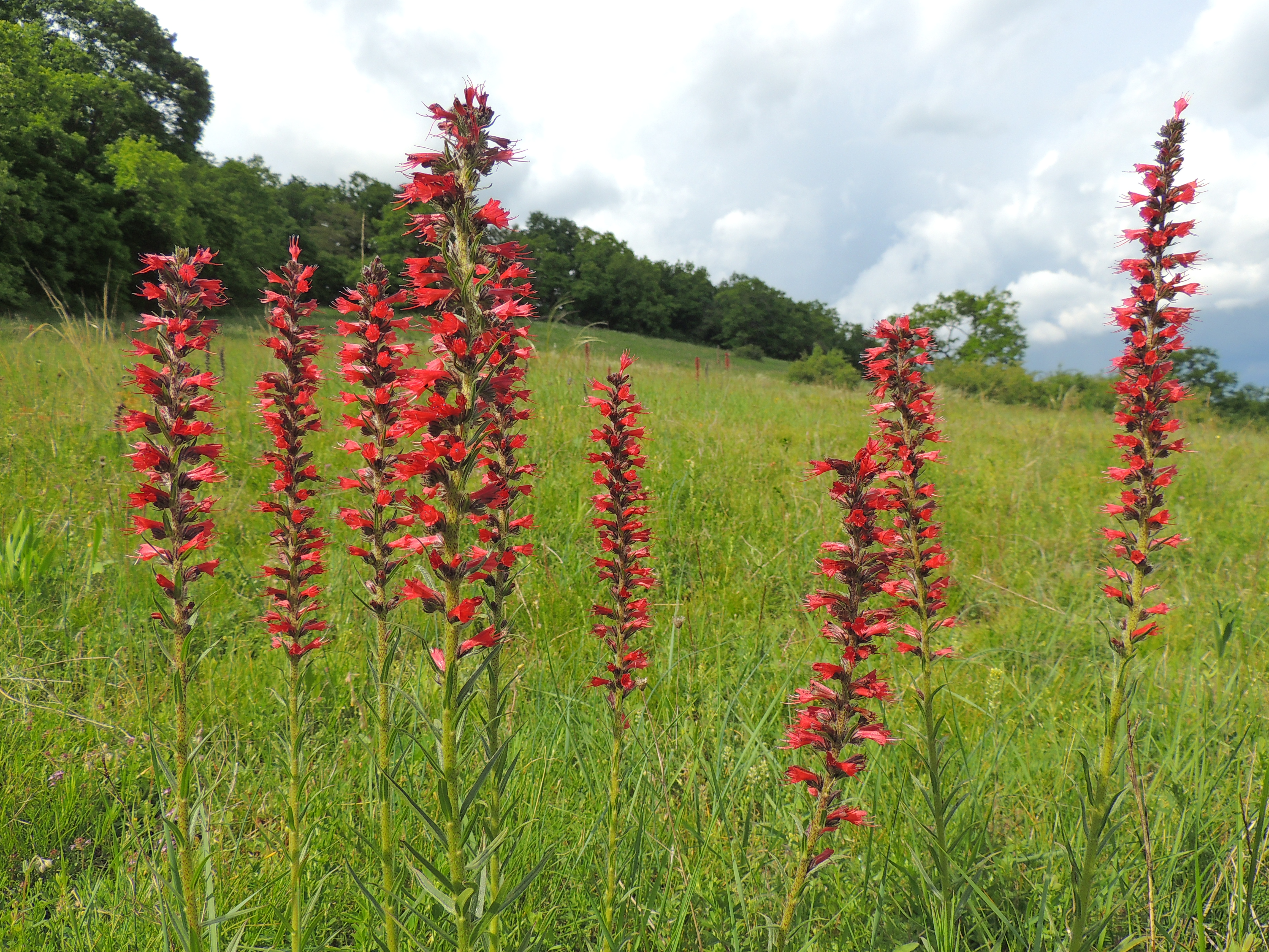 (Pontechium maculatum) Location: near Sânpetru, Romania